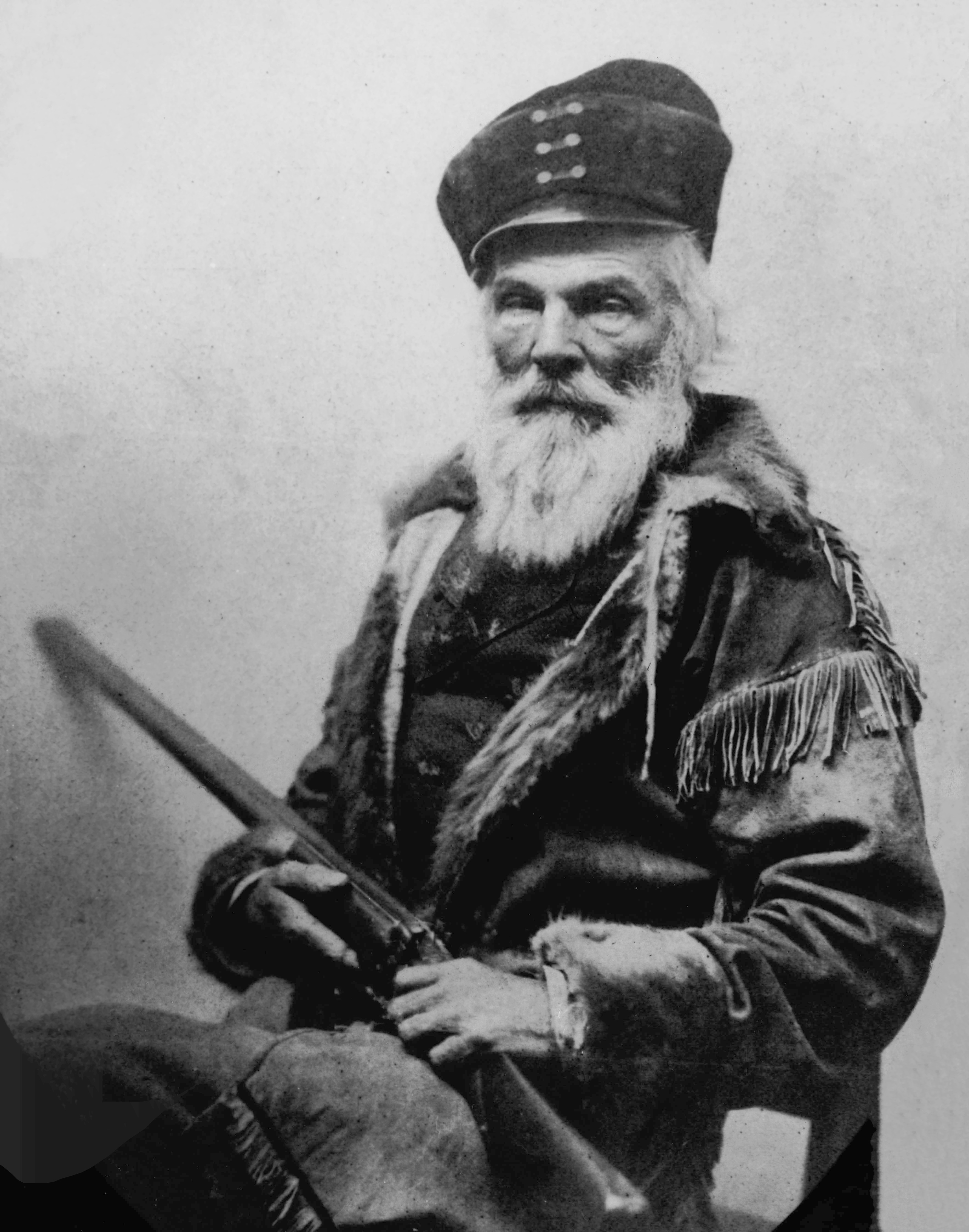 Photograph of Joseph Walker